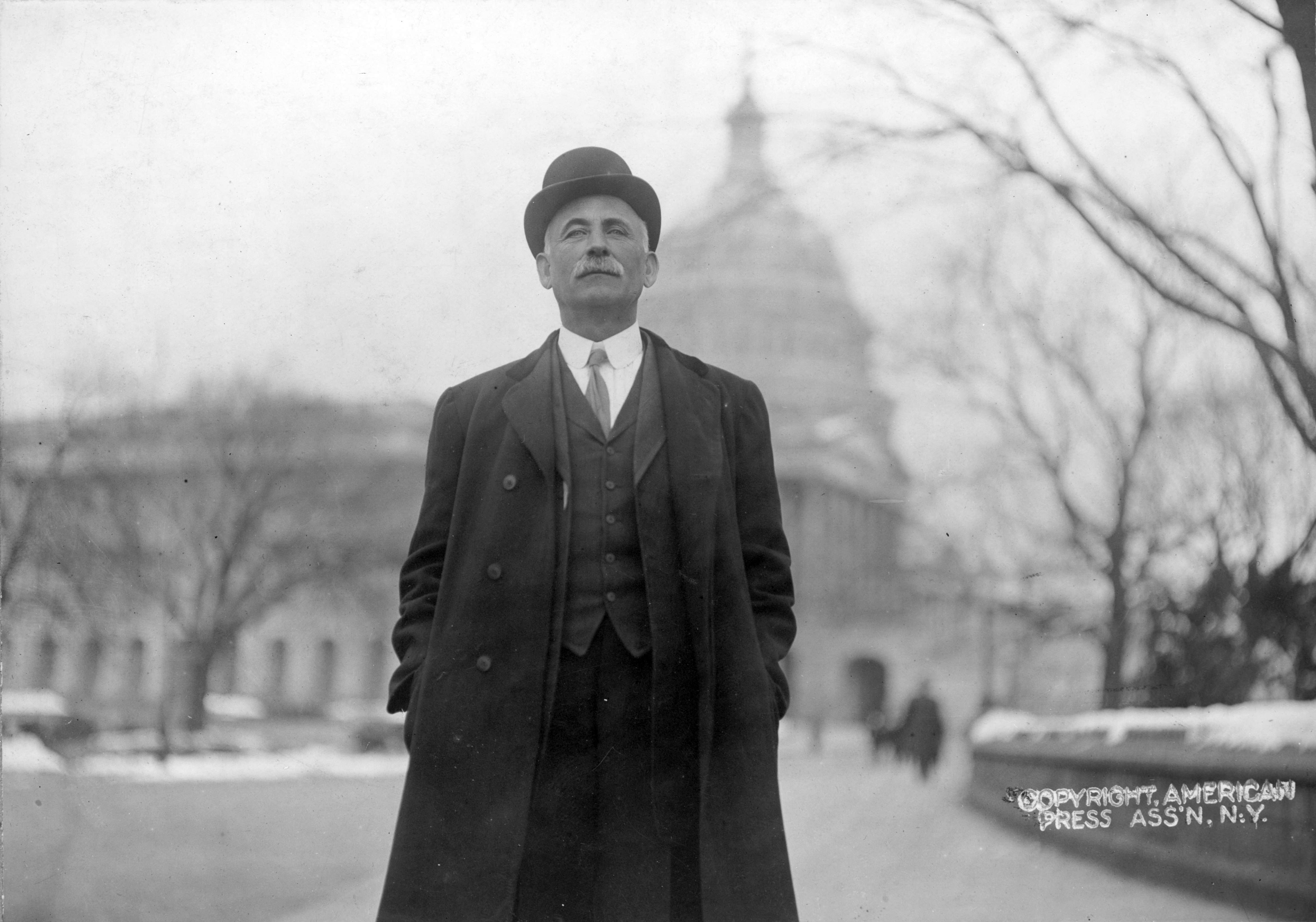 Congressman Dorsey W. Shackelford, United States Congressman from Missouri, three-quarter length portrait, standing, United States Capitol Building in the background. The Library of Congress Prints and Photographs Division, Washington, D.C.